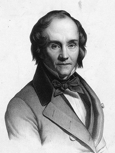 French poet and playwright Casimir Delavigne (1793-1843) by Marie-Alexandre Alophe (1812-1883) after Henry Scheffer (1798-1862).